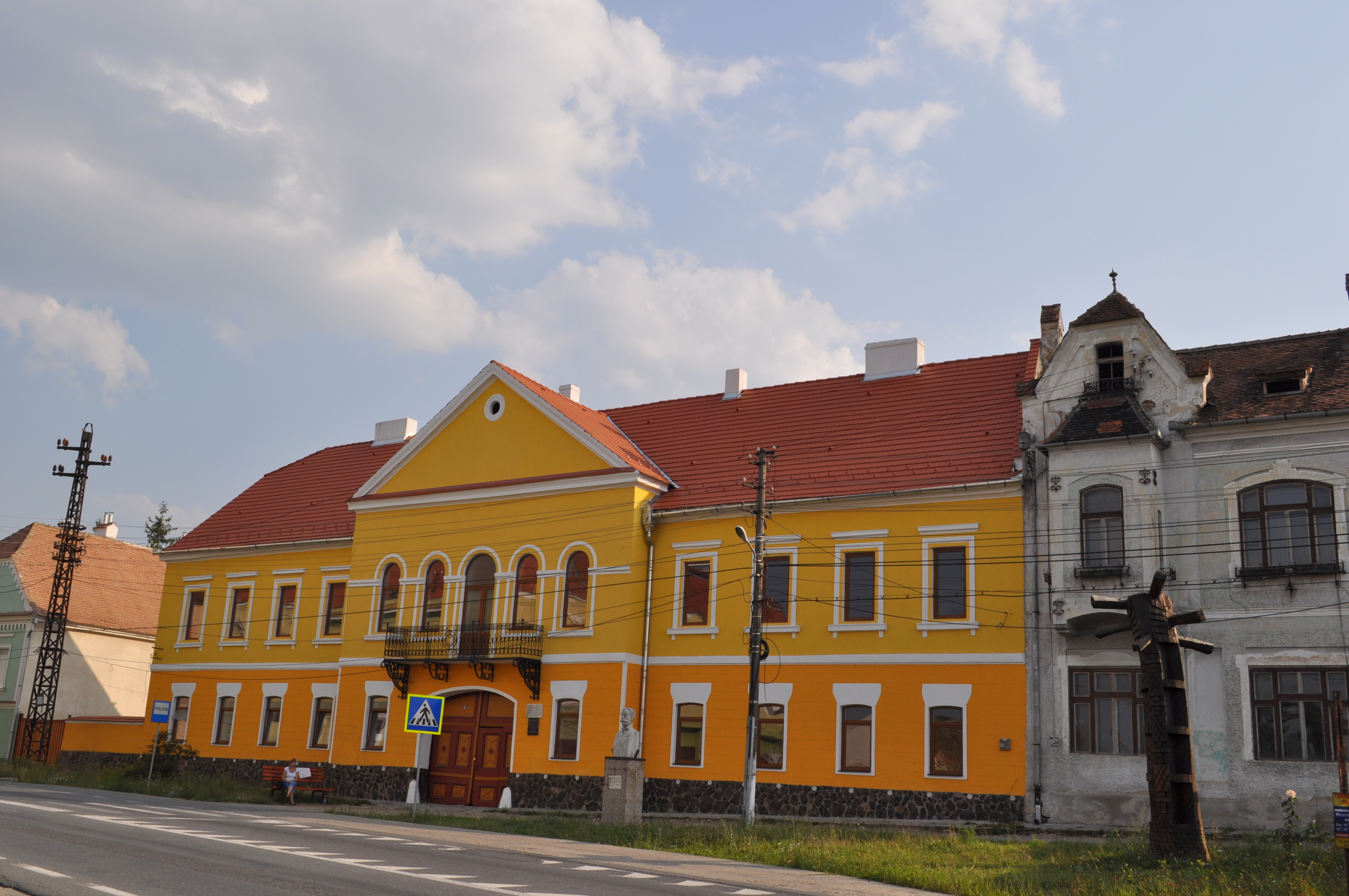 Miercurea Sibiului, Sibiu county, Romania